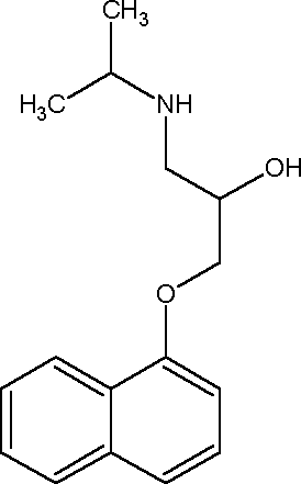 File:Propranolol.svg is a vector version of this file. It should be used in place of this raster image when not inferior. File:Propranolol.png File:Propranolol.svg For more information, see Help:SVG.